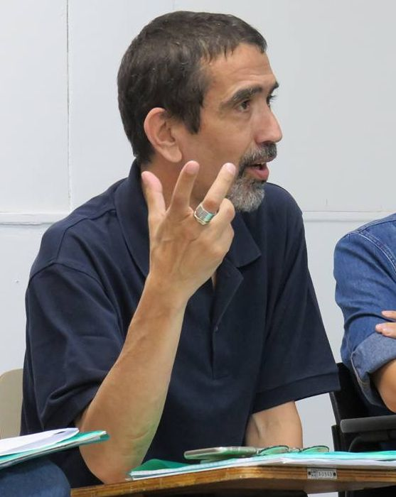 Professor Paulo Martins in event at Rio de Janeiro, Brazil, in 2017 July.